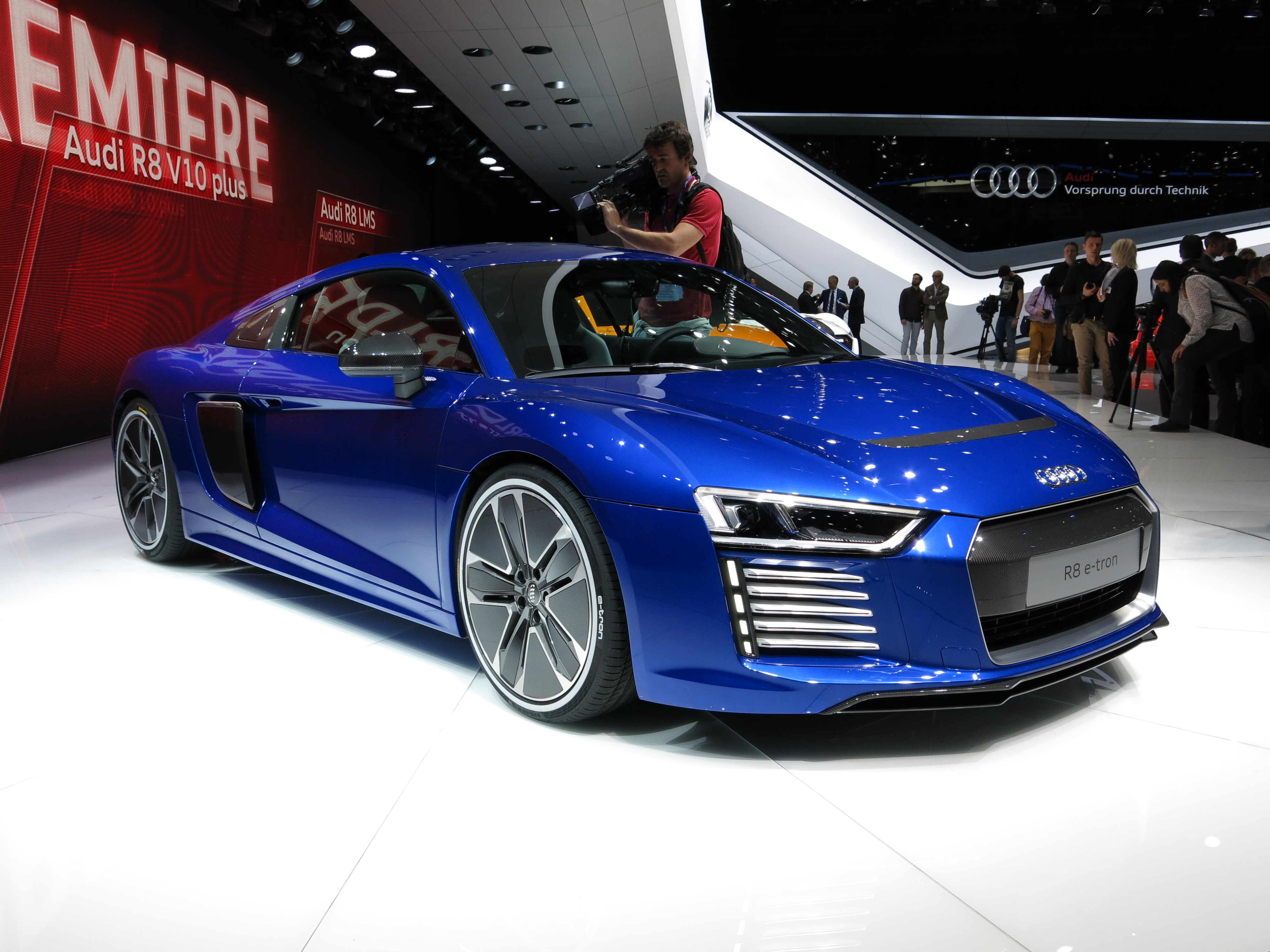 Geneva Motor Show 2015 (photo taken on the first press day)